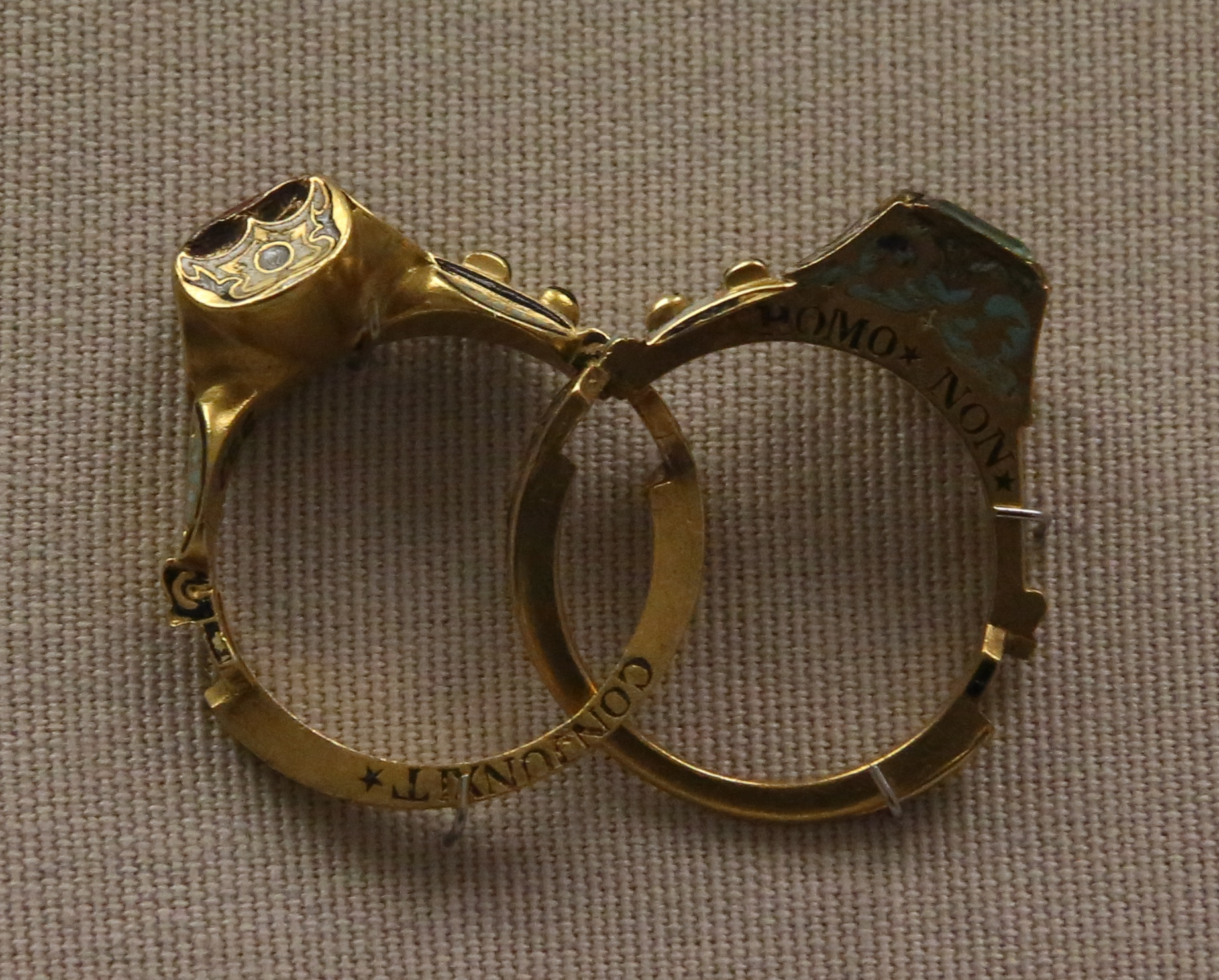 Photo of a Gimmal ring with the hoop opened